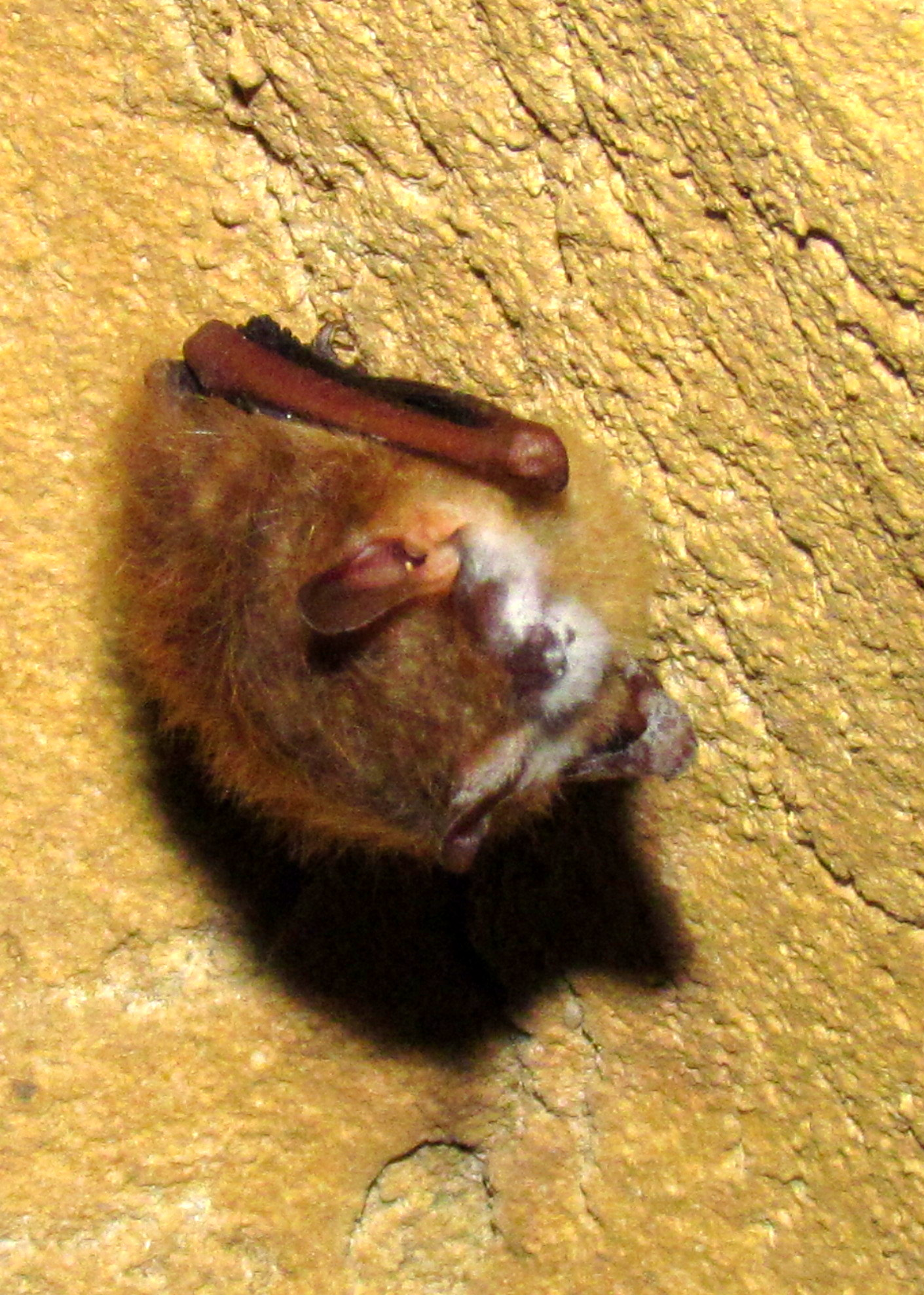 White-nose syndrome growing on a hibernating tri-colored bat